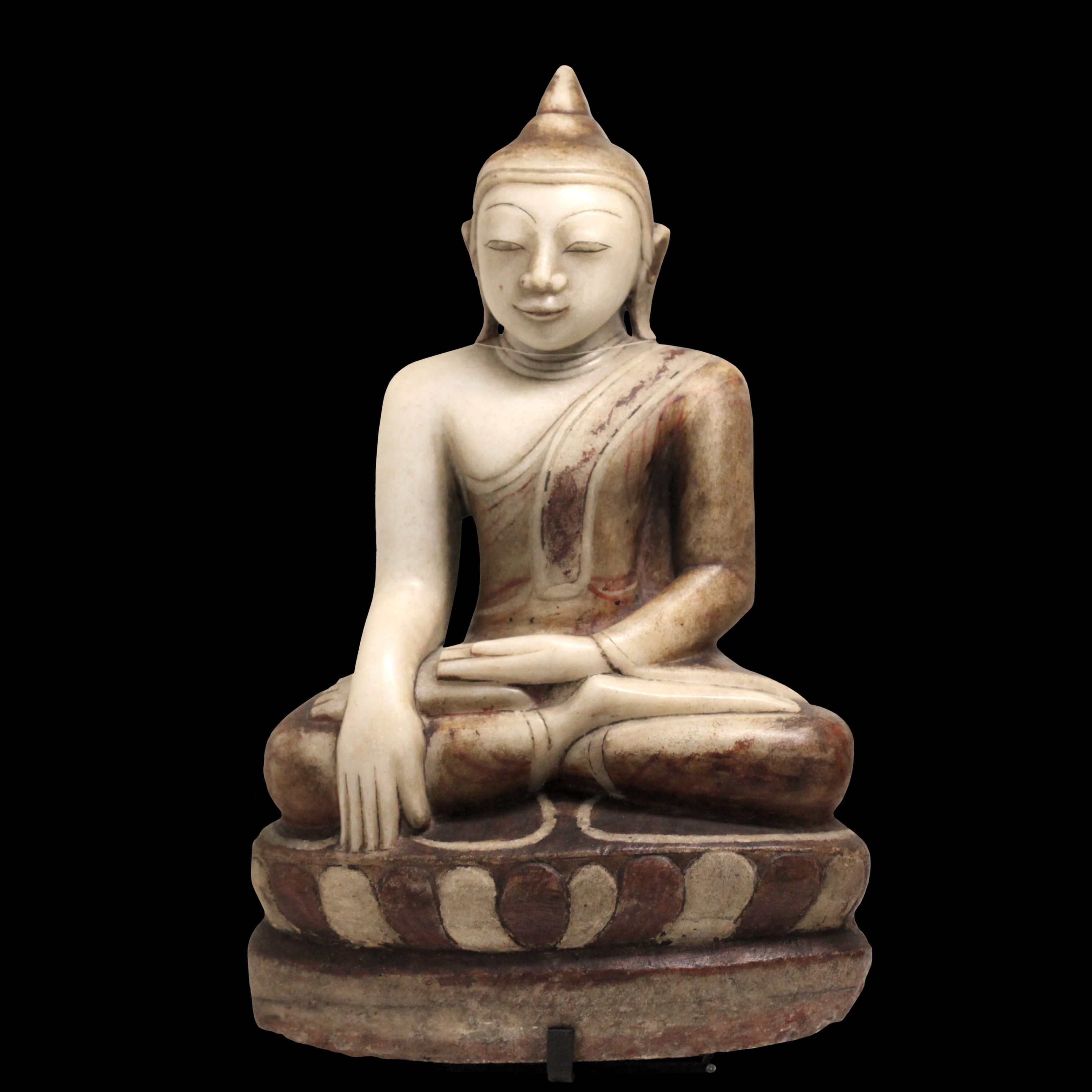 Buddha sitting in bhumisparsha-mudra posture (calling the earth to be his witness). Burma. White marble with traces of polychromy.